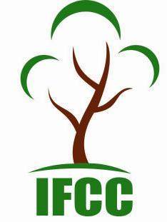 This is a Logo for IFCC-KSK